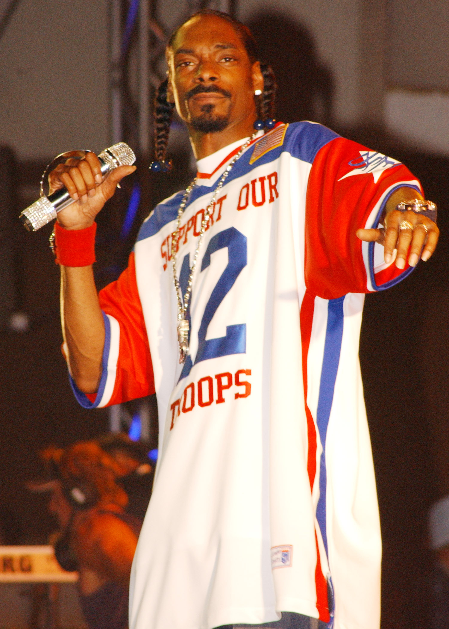 050722-N-9076-008 Waikiki Shell, Honolulu, Hawaii — Hip Hop artist Snoop Dogg pulls out all stops during a special concert for over 8000 military personnel and their dependents during the Bodog Salutes the Troops event. The two-day event honored the men and women of the United States Military Services, and benefited the military charity Fisher House Foundation. The event featured a prize-filled poker tournament and a comedy show and concert with celebrity and military attendance at both events.